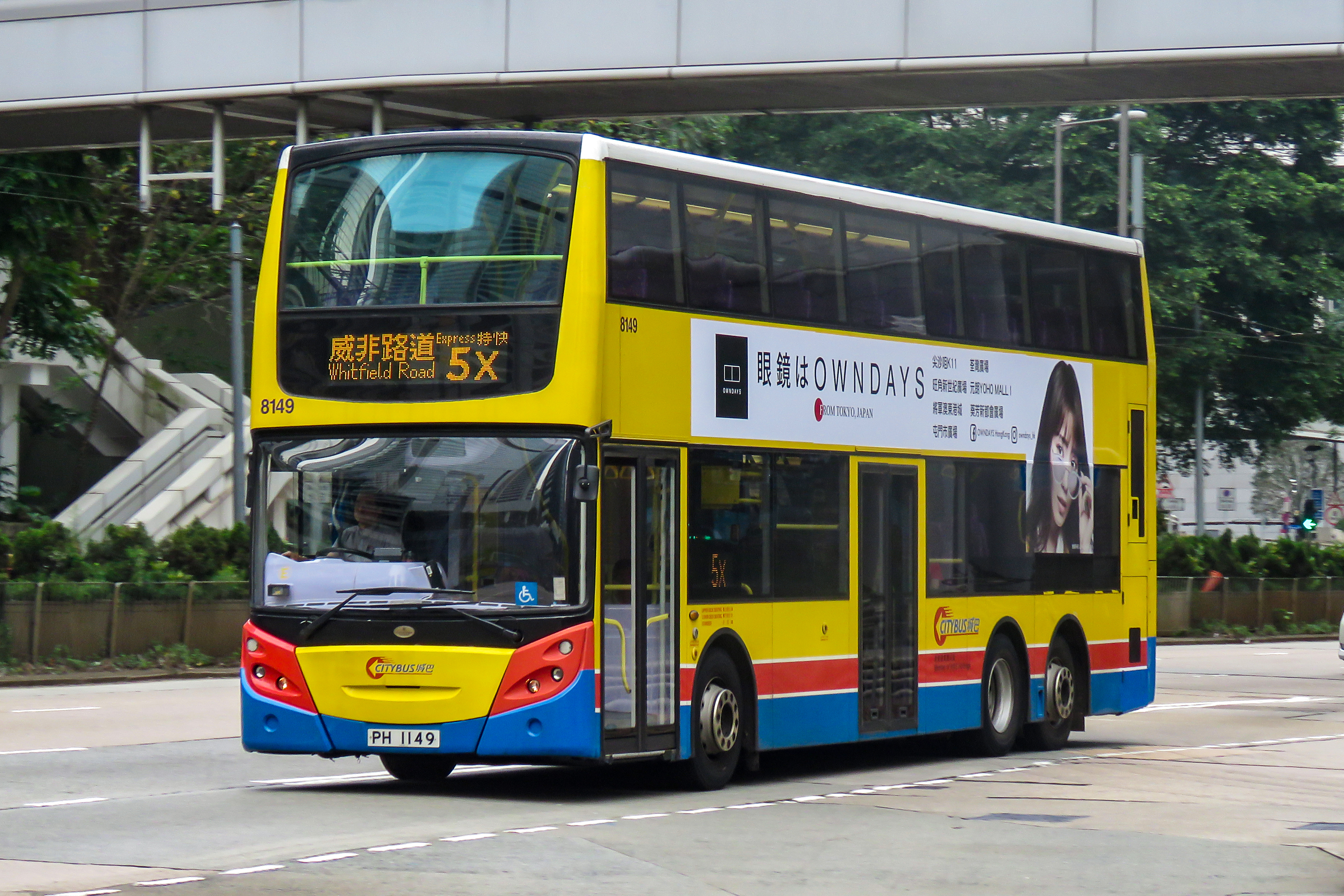 Something like an express...